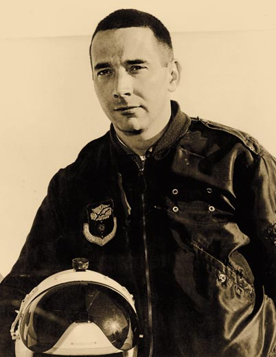 As a young pilot, Walter J. Boyne couldn’t wait to fly the U.S. Air Force’s hot new swept-wing, jet-powered Boeing B-47 Stratojet bomber. Photo is from the Air & Space Magazine article, The Dawn of Discipline, and is credited to the United States Air Force (USAF).